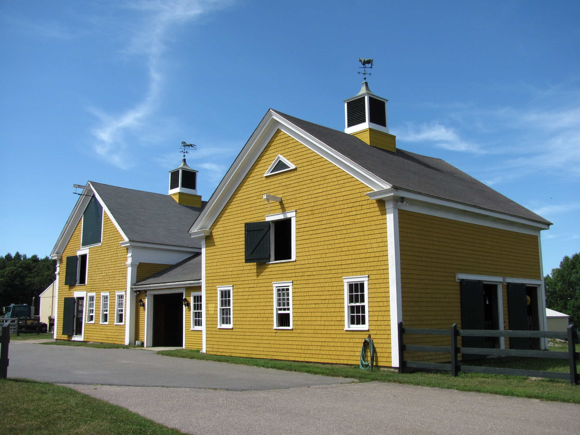 Barns at East Over Reservation, Rochester Massachusetts